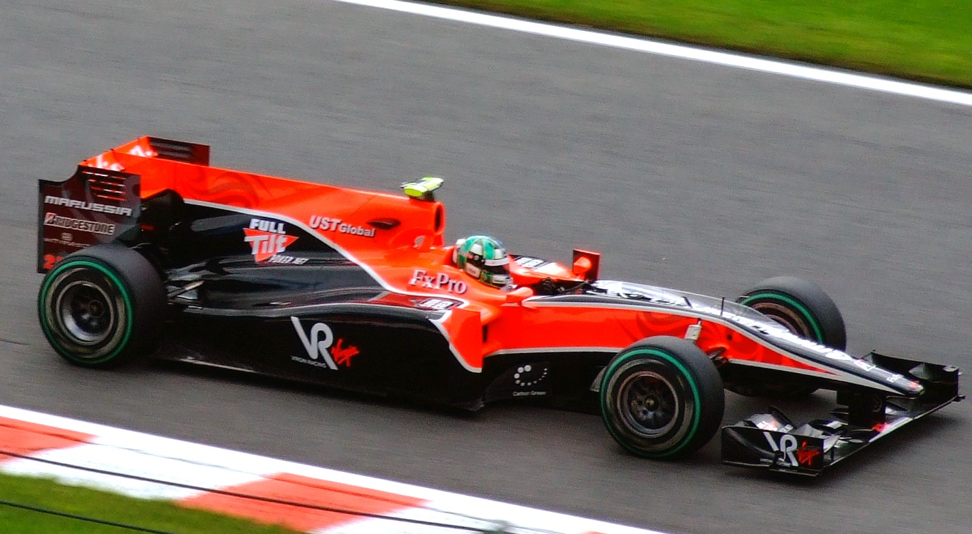 Lucas Di Grassi, Virgin Racing VR-01, entering Pouhon, Spa-Francorchamps, Second Practice, 2010 Belgian Grand Prix.